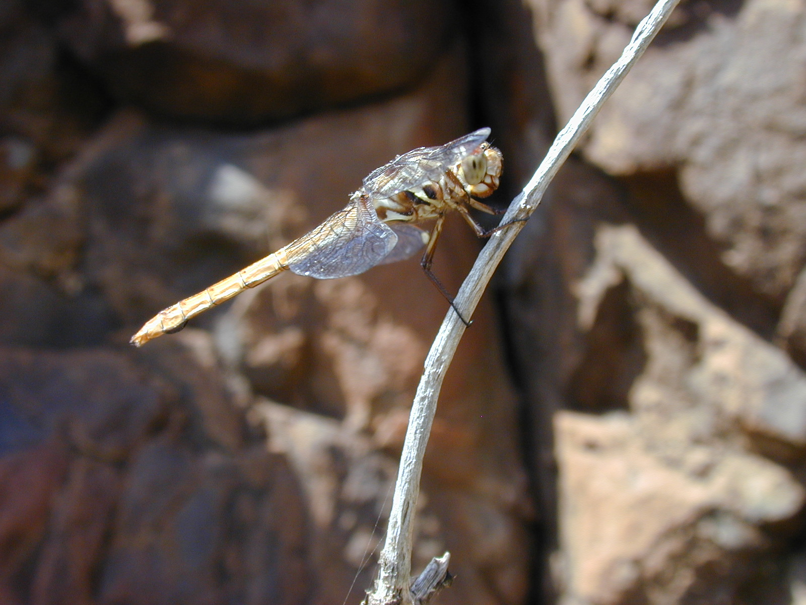 Leucaena leucocephala (globe skimmer). Location: Maui, Lahaina Pali Trail